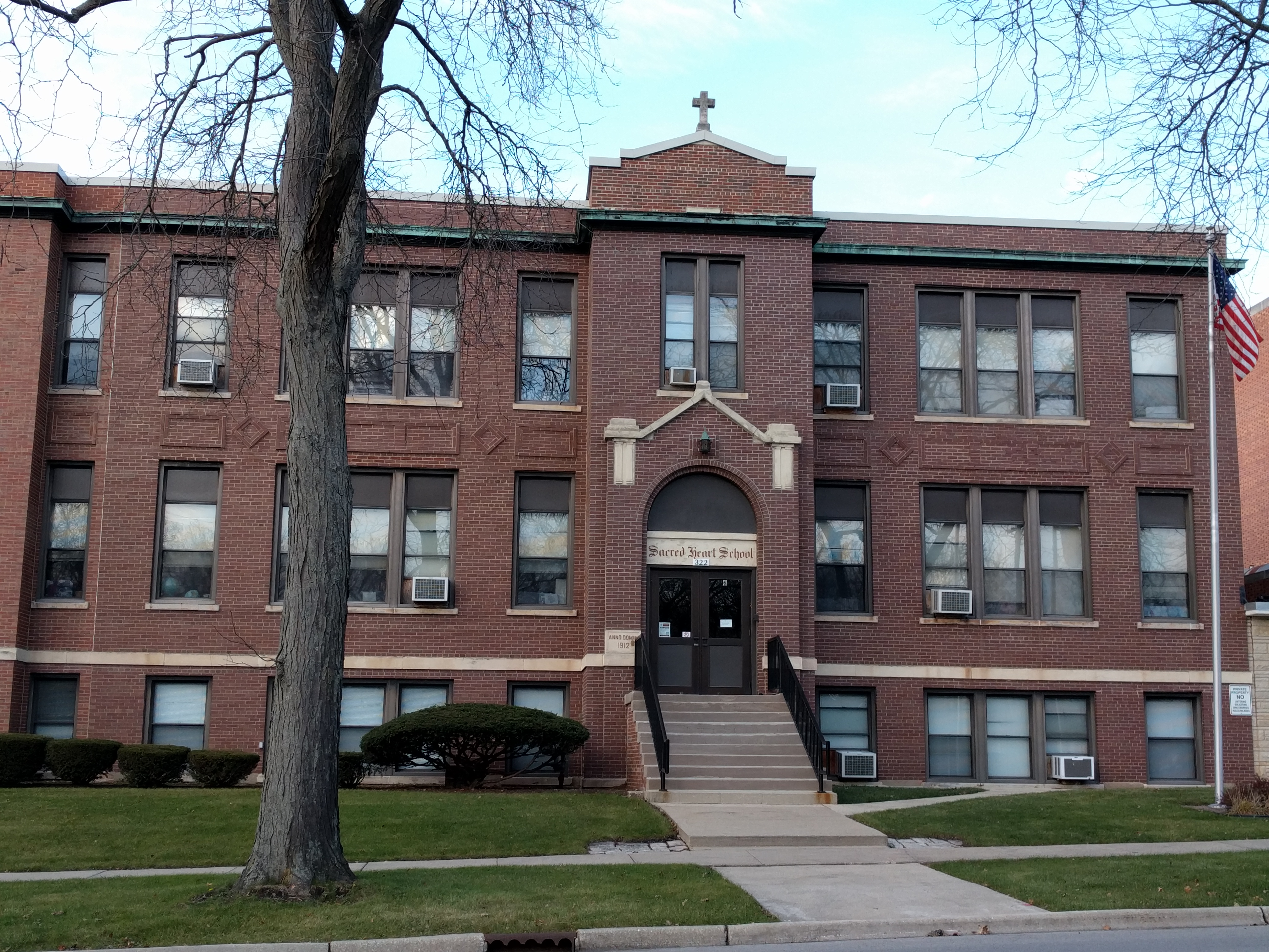 This is a photograph of Sacred Heart School, located in Lombard, Illinois.